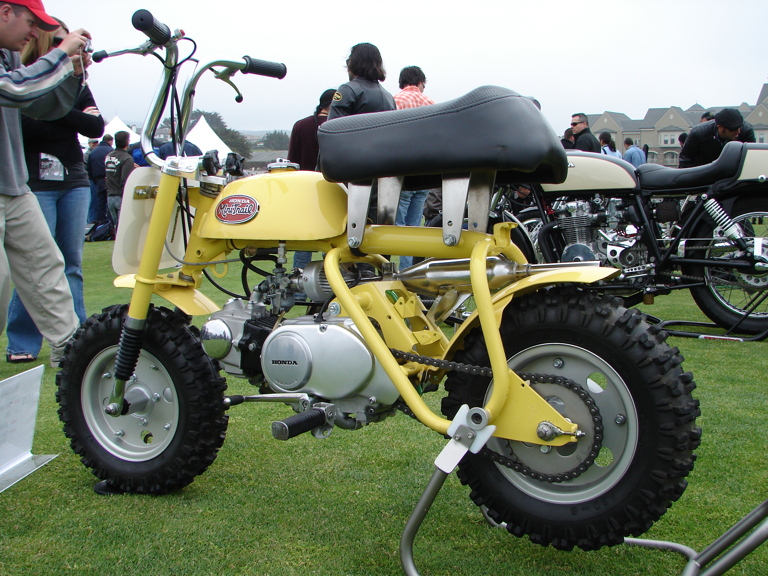 Honda Mini Trail 50 (Monkey)